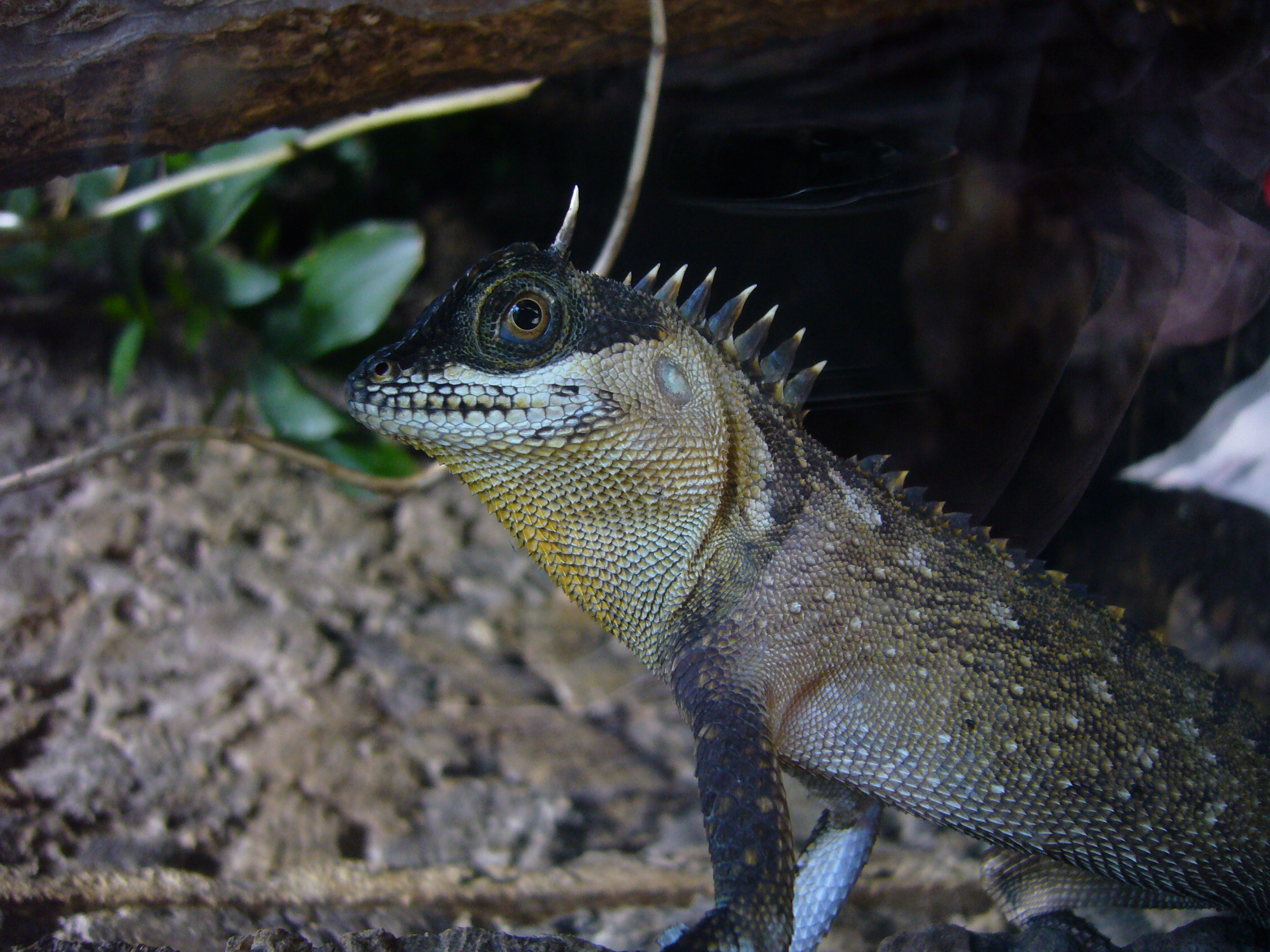 Mountain Horned Dragon (Acanthosaura capra) photographed at Chester Zoo.